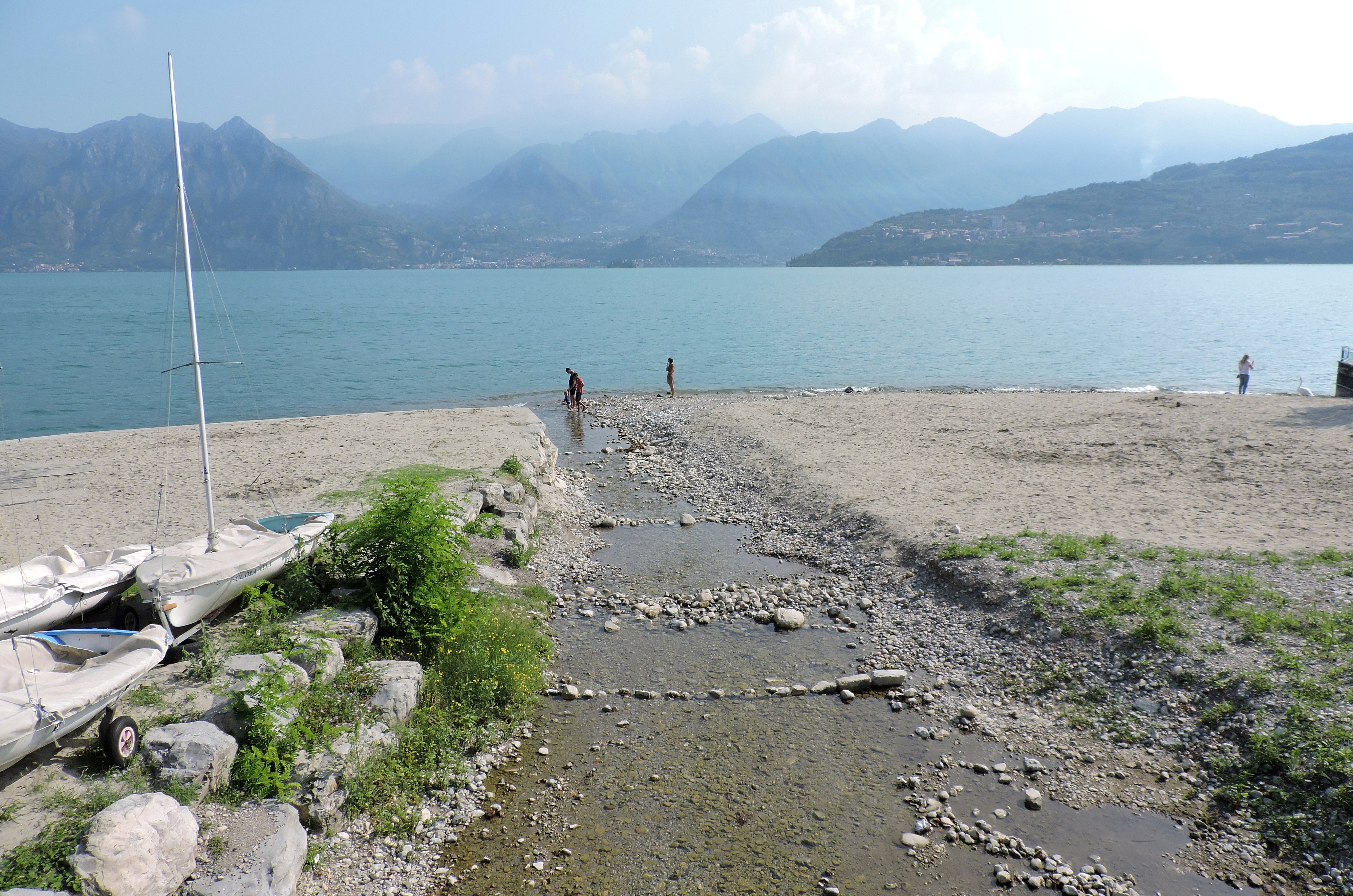 Rino di Vigolo (BG, Italy): mouth in the Lake Iseo